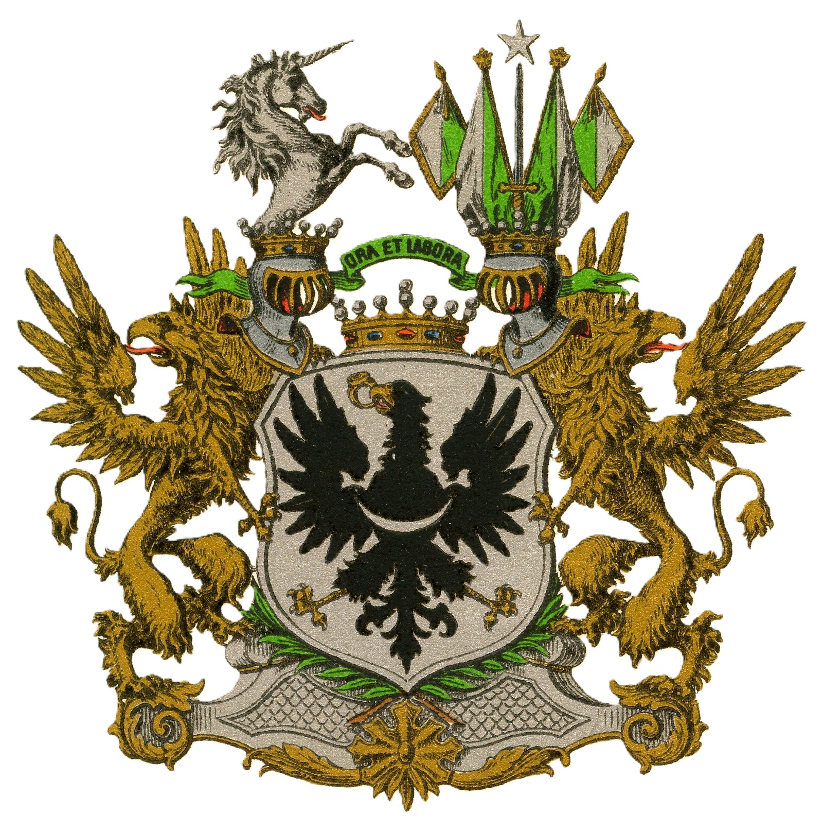 Coat of Arms of Russian Counts Ramsey